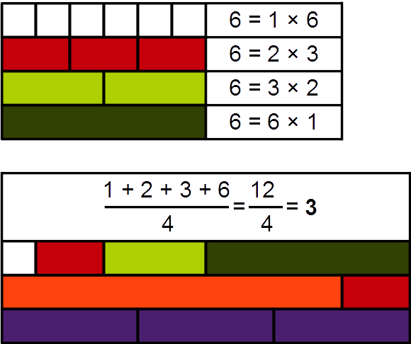 Showing, through Cuisenaire rods, that 6 is an arithmetic number.